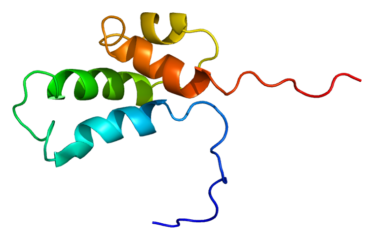 Structure of the POLB protein. Based on PyMOL rendering of PDB 1bno.